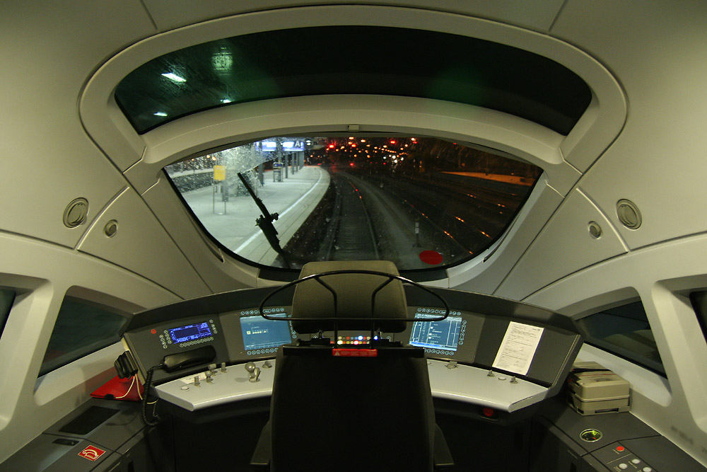 The driver's cab on a DB Class 411 (ICE with tilting technology).